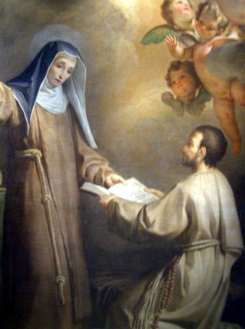 Sainte Giacinta Marescotti